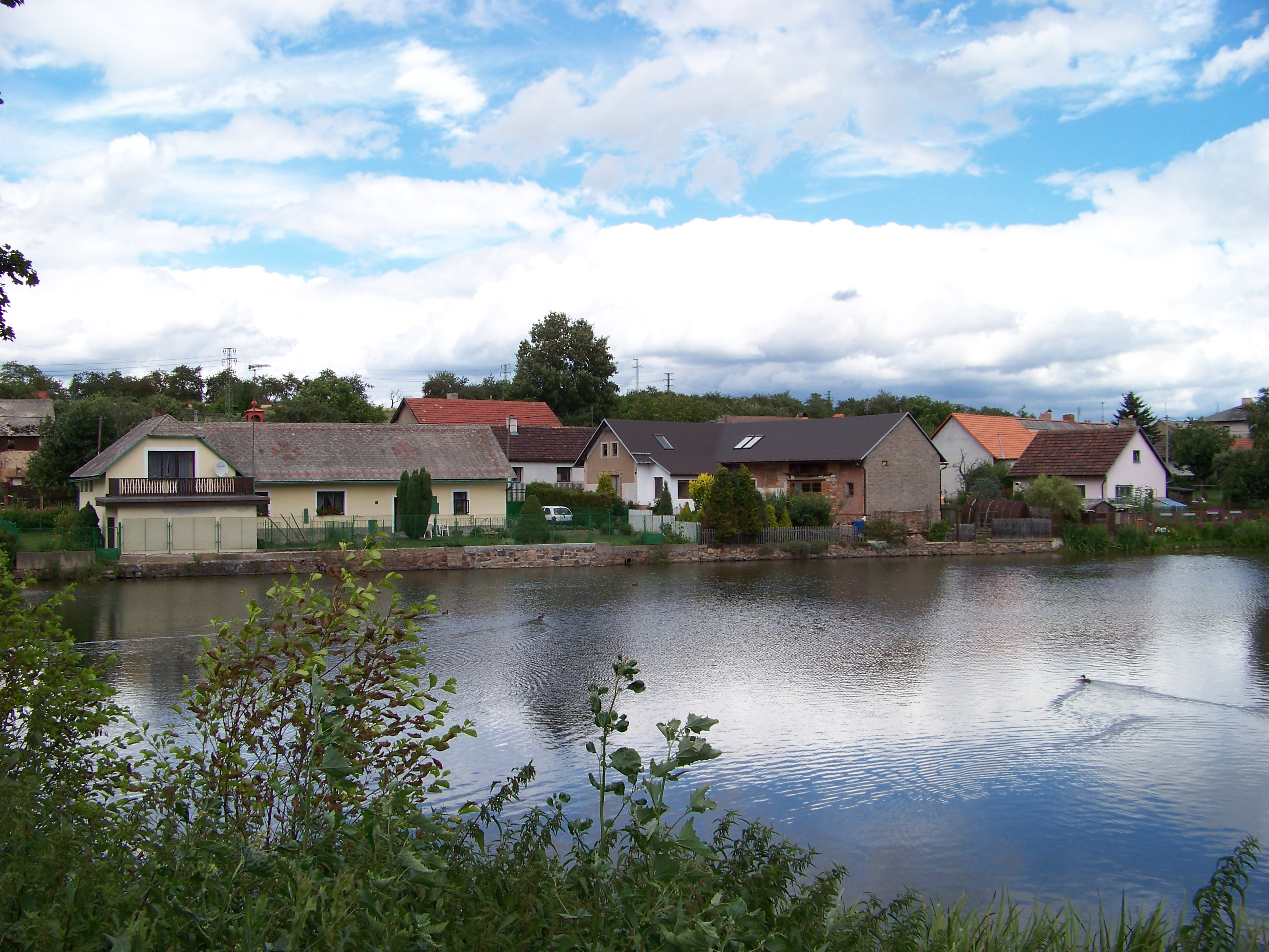 Příbram-Jerusalem, Příbram District, Central Bohemian Region, the Czech Republic. A pond. - OpenStreetMap(Info)